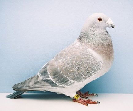 champion english show homer (mosaic), bred and owned by brookshaw lofts. photo by: jackie brooks & jim gifford